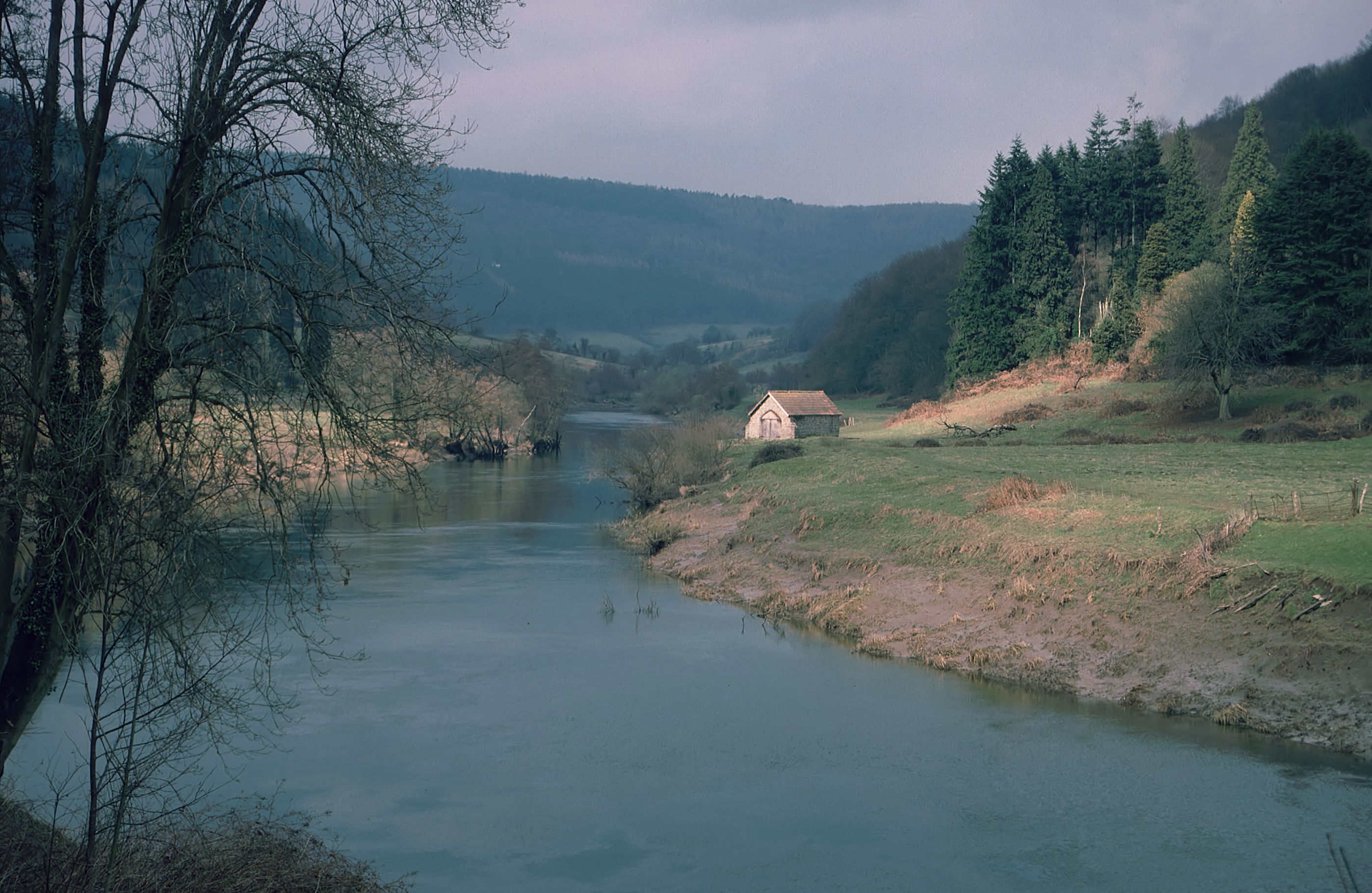 Wye Valley near Tintern Abbey, south Wales